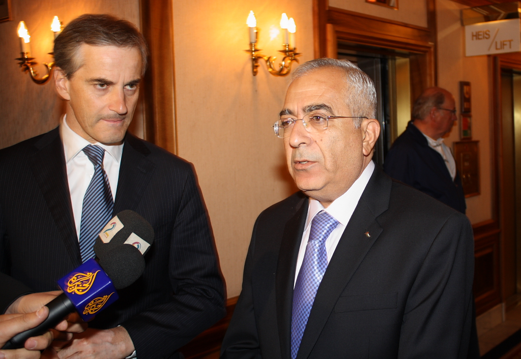 Norwegian Foreign Minister Jonas Gahr Støre and Palestinian Prime minister Salam Fayyad on their first day at the Ad-hoc Liaison Committee (AHLC) meeting.